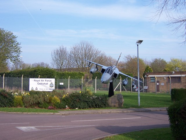 RAF Coltishall Main gate, showing the gate guarding SEPECAT Jaguar aircraft. Out of shot is a second gate guard, Hurricane WW2 fighter